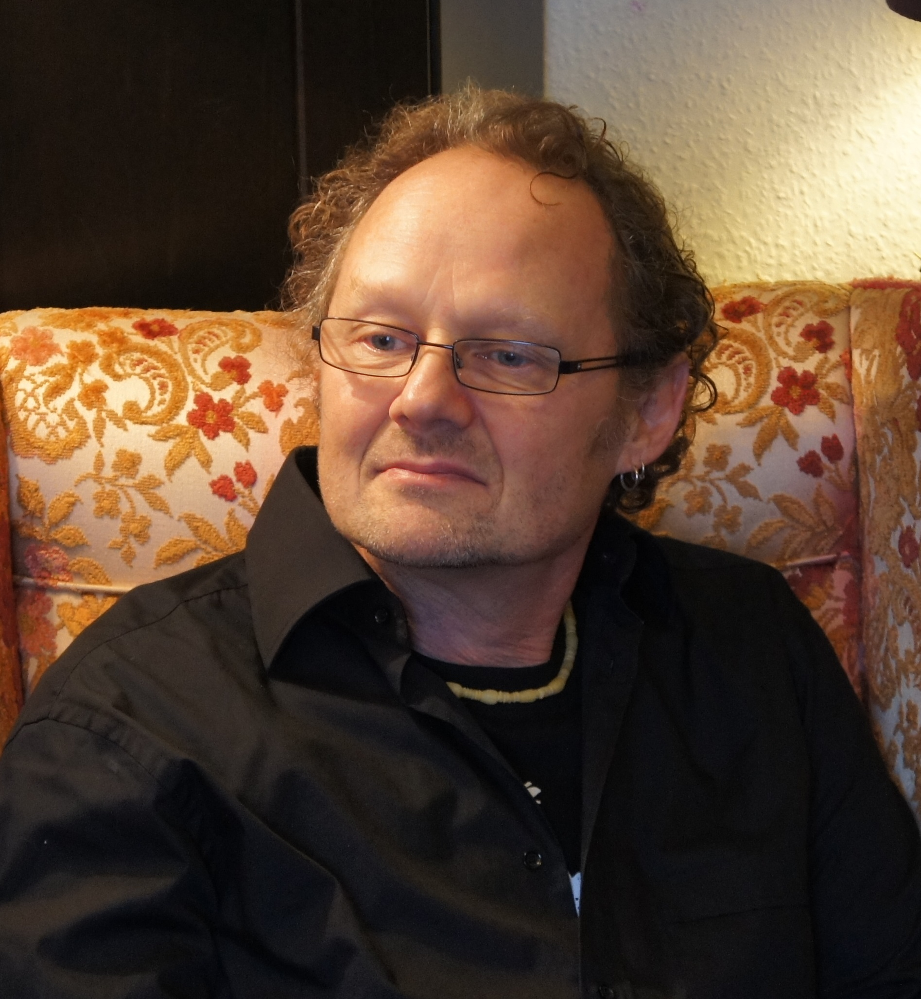 Alexander Titov portrait